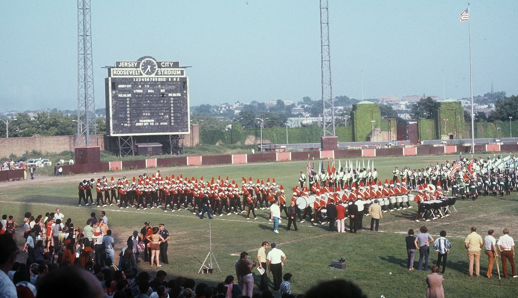 1971 & 1972 Dream Champions NY Skyliners ar Roosevelt Stadium Jersey City NJ.